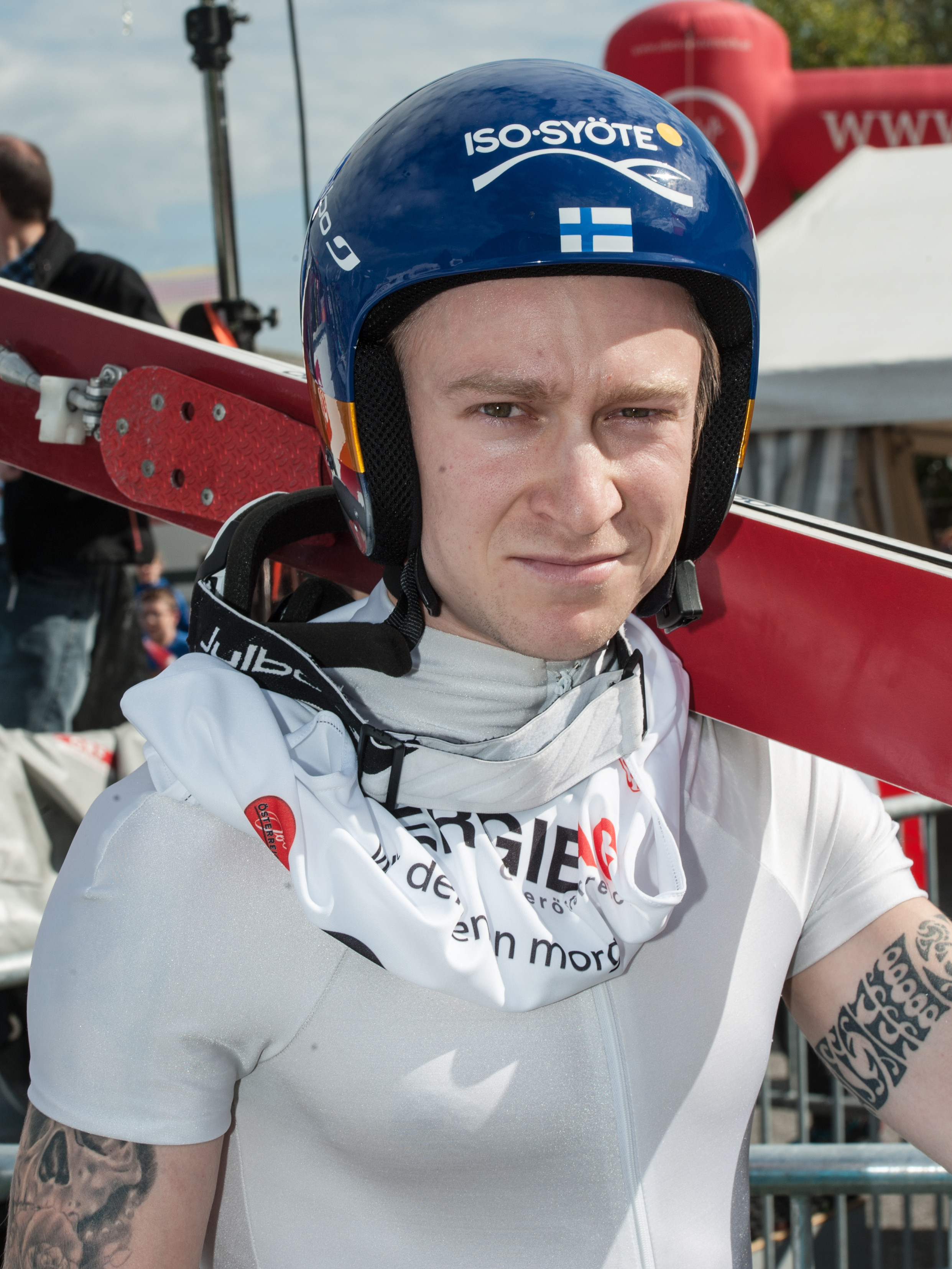 Fis Ski Jumping Summer Grand Prix in Hinzenbach, Upper Austria, 2015-09-27: Ville Larinto